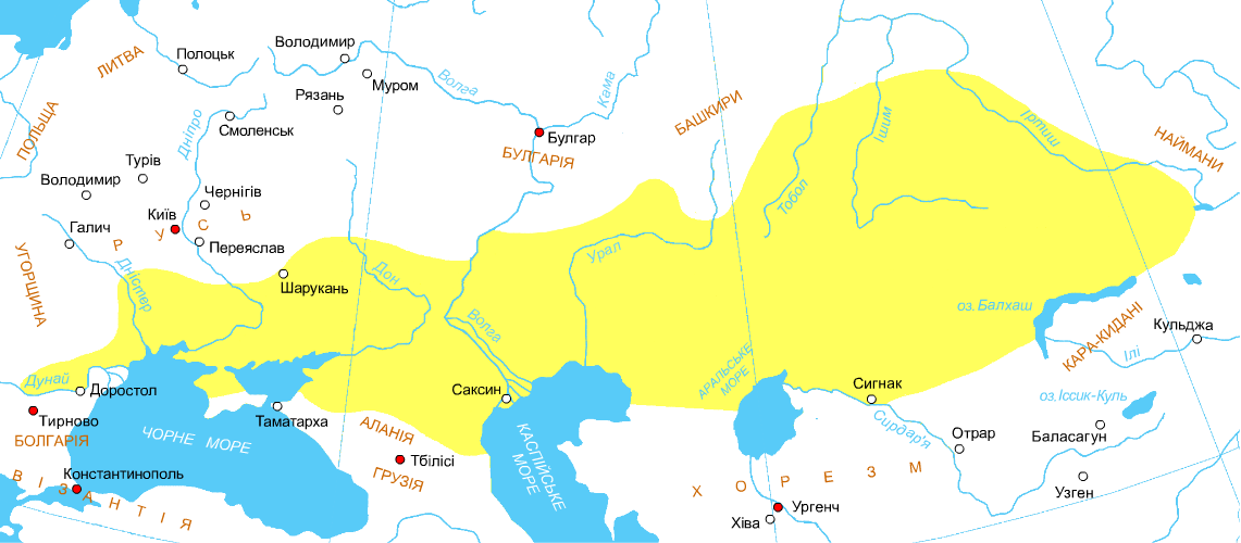 Cumania (Desht-i Qipchaq). early 13 c.